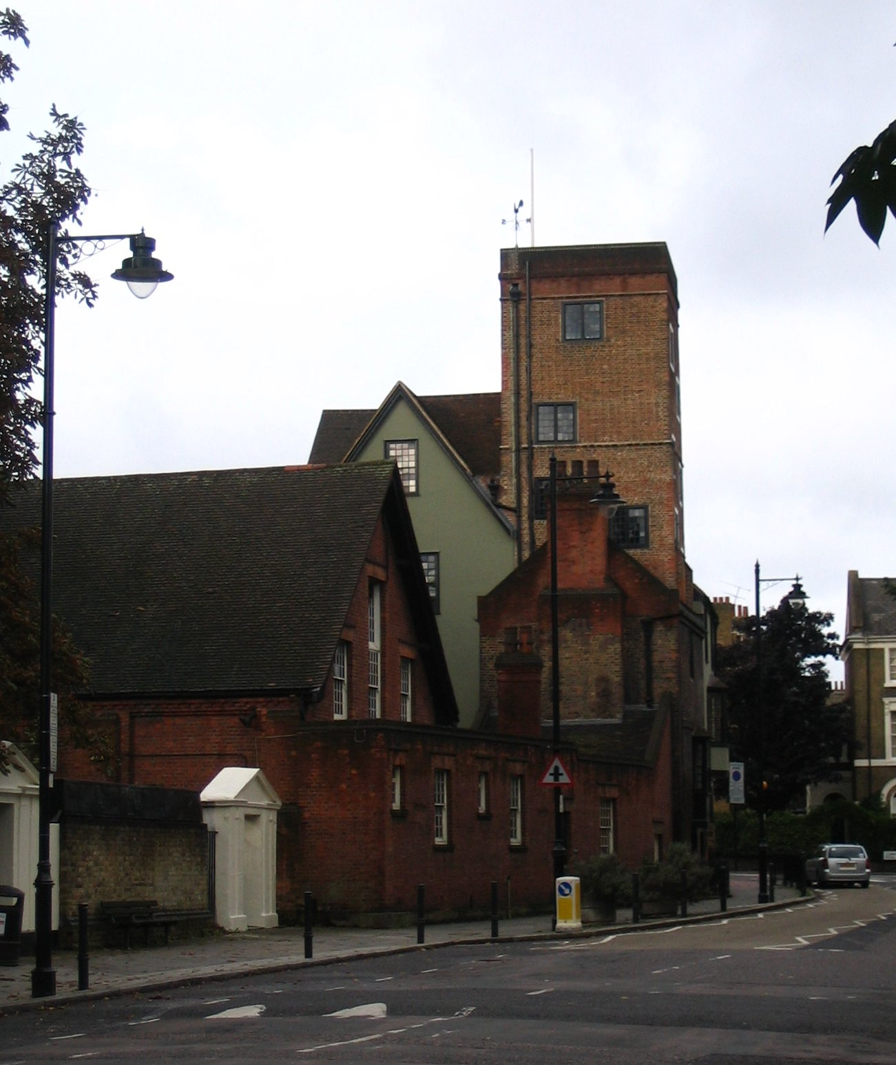 Canonbury Tower from Canonbury Place